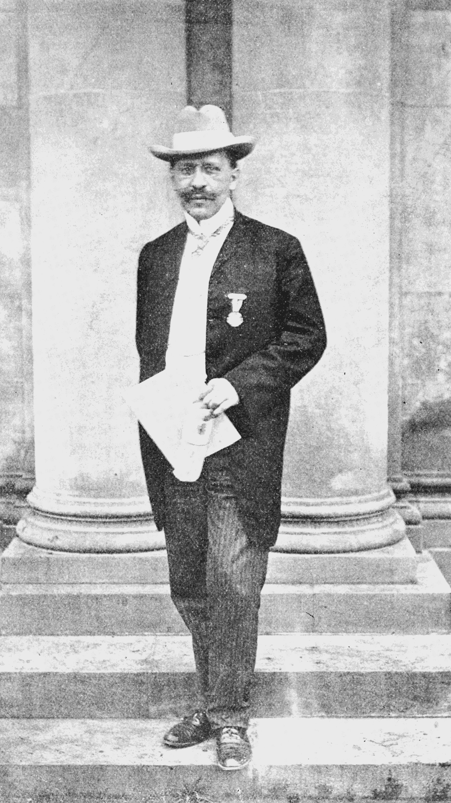 Hugo Munsterberg of Harvard University and vice president of the congress